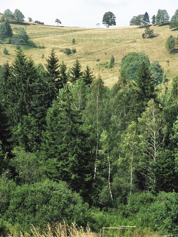 Puchaczówka Pass in Śnieżnik Mountains (Sudeten, Poland).